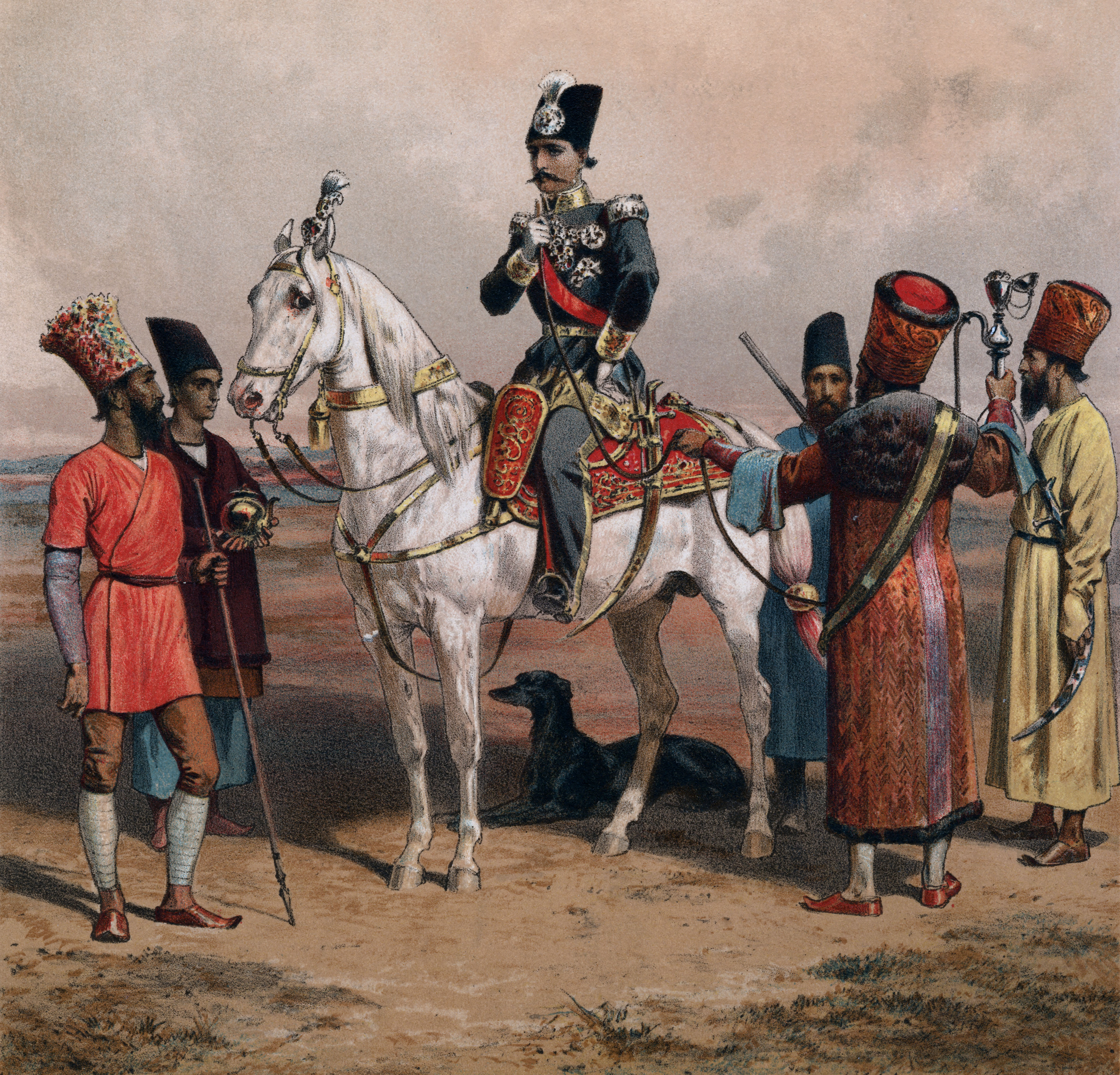 Naser al-Din Shah Qajar